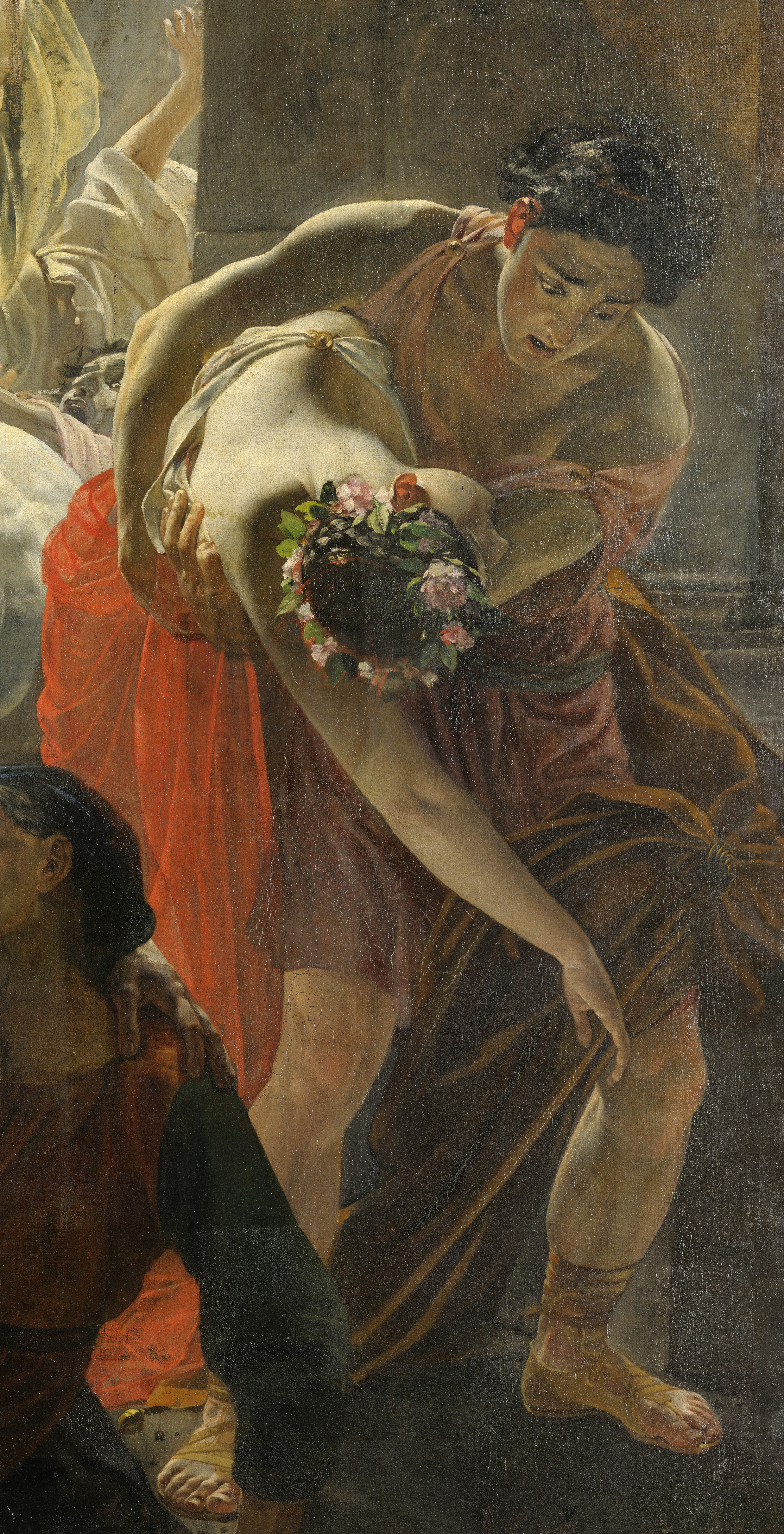 Detail of "The last day of Pompeii" (by Karl Bryullov, 1833, Russian Museum)